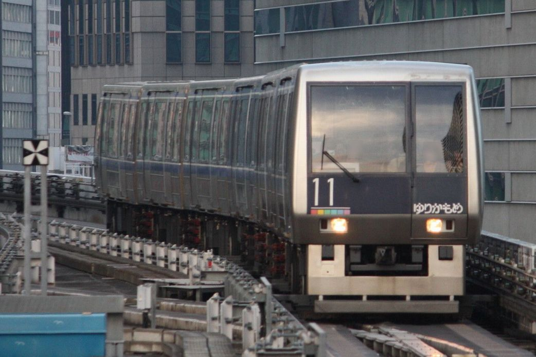 A Yurikamome 7000 series trainset approaching Shiodome Station